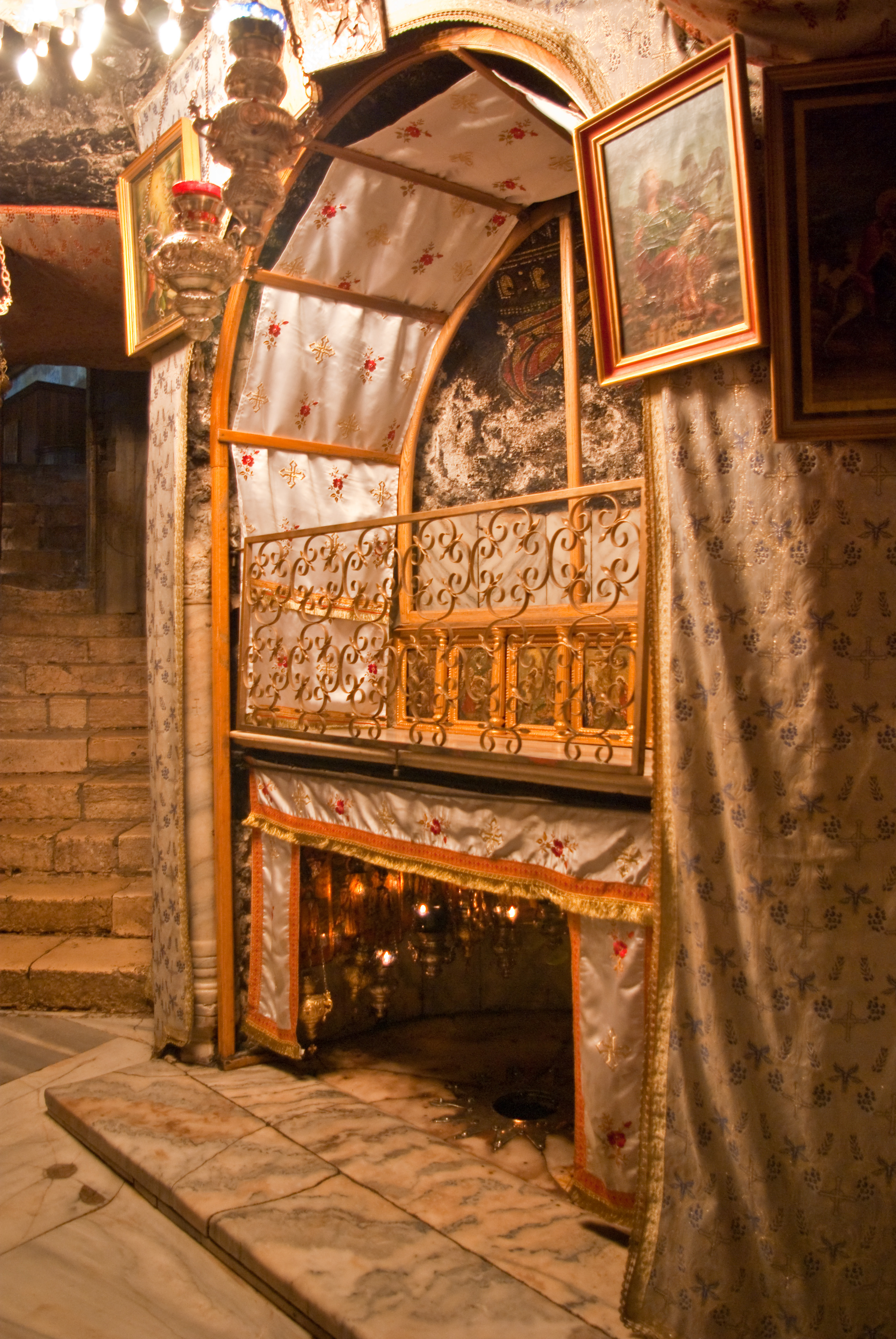 Grotto of the Nativity